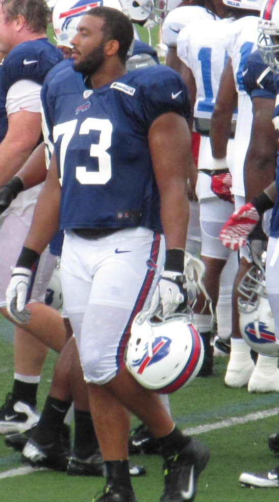 Buffalo Bills defensive tackle Jarron Gilbert at 2012 training camp